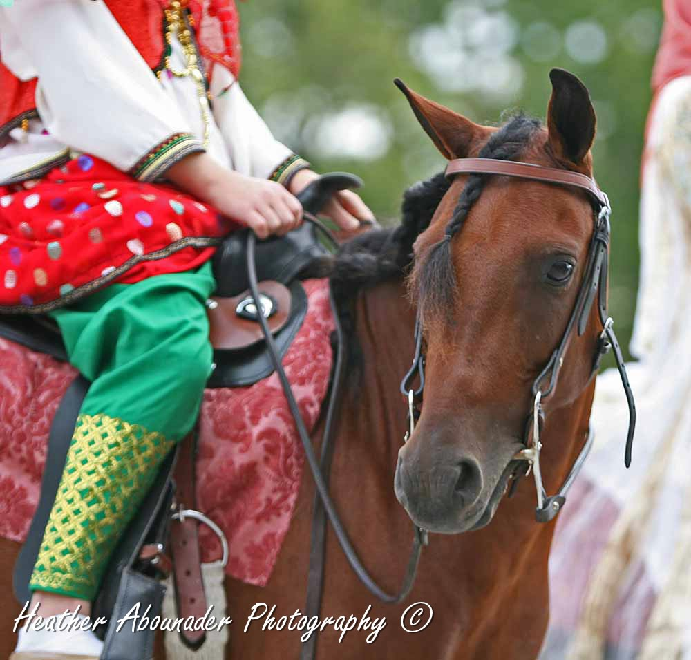 Image by Heather Abounader